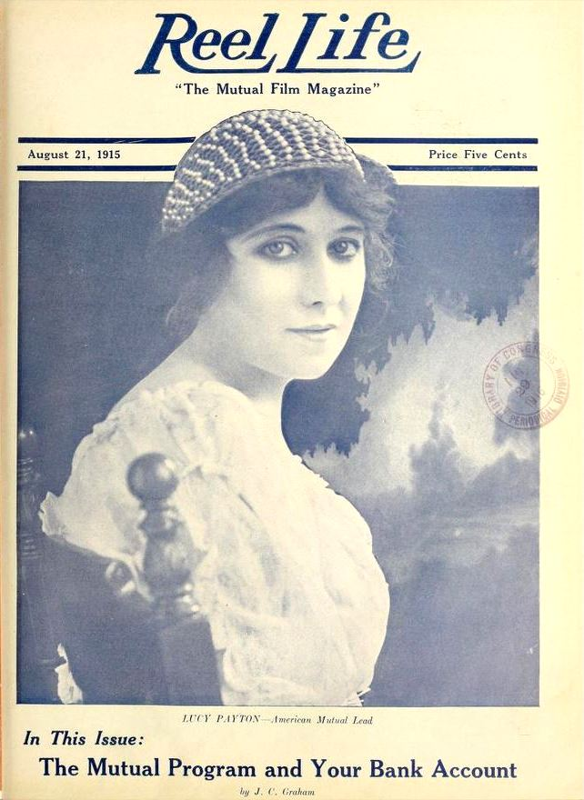 Actress Lucy Payton (1877 – 1969) on the cover of the August 21, 1915 Reel Life magazine.